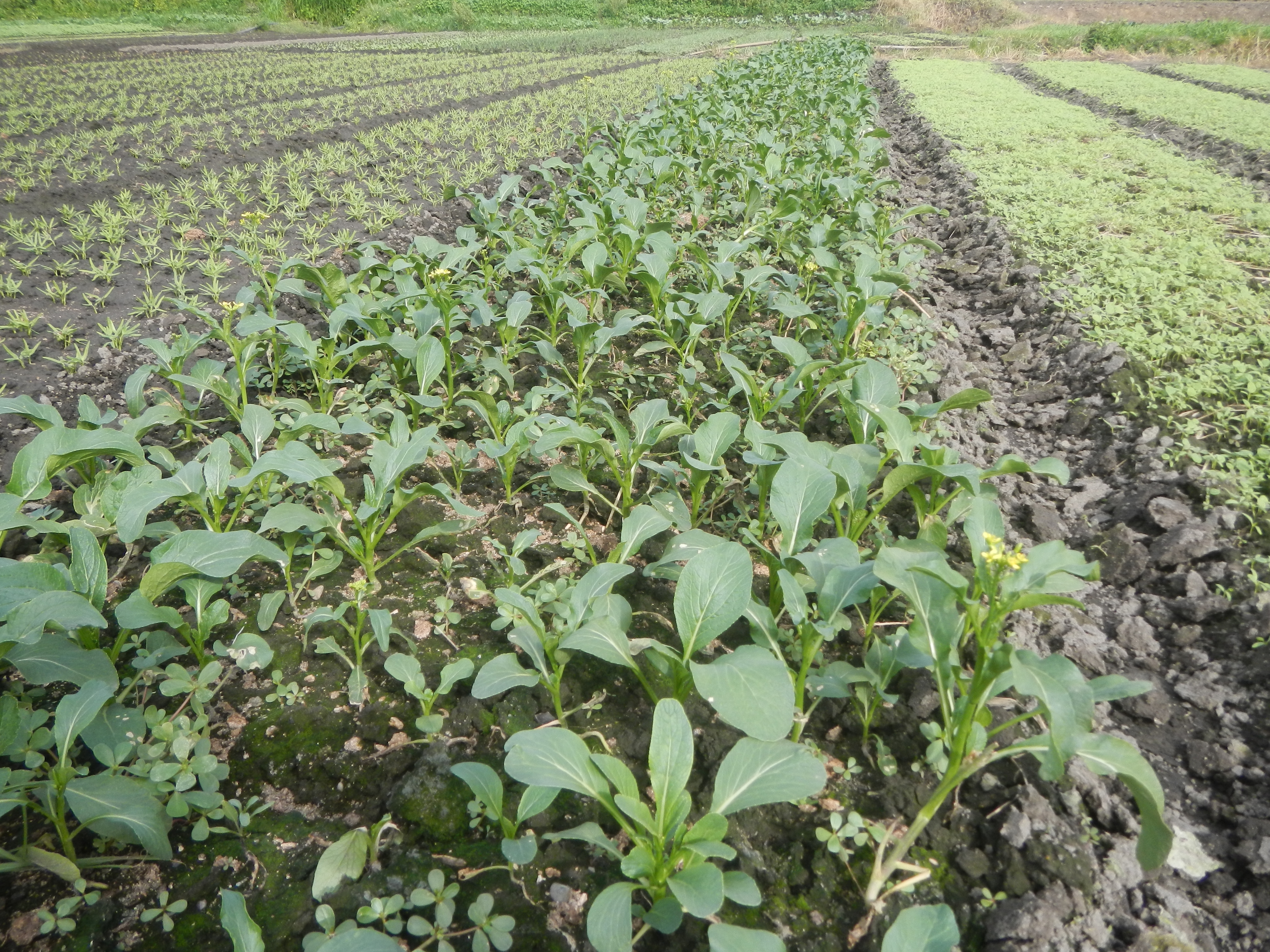 Vegetable plantations in Pulilan, Bulacan including the Ipomoea aquatica Ipomoea aquatica Kangkong Tsina LP Kangkong Ipomoea aquatica Forsk. Convolvulus reptans Linn. Bok choy Brassica rapa subsp. chinensis or Brassica rapa subsp. chinensis var. parachinensis Gai Lan Kai-lan Kailan Kena brocolli leaves broccoli cultivated for the leaves Chinese broccoli; Spinacia oleracea Spinach fields in Barangay Taal, Pulilan, Bulacan Vegetable plantations from the Pulilan-Baliuag interior National Road and towards along Pan-Philippine Highway, also known as the Maharlika "Nobility/freeman" Highway in Cagayan Valley Road (Note: Judge Florentino Floro, the owner, to repeat, Donor Florentino Floro of all these photos hereby donate gratuitously, freely and unconditionally all these photos to and for Wikimedia Commons, exclusively, for public use of the public domain, and again without any condition whatsoever).